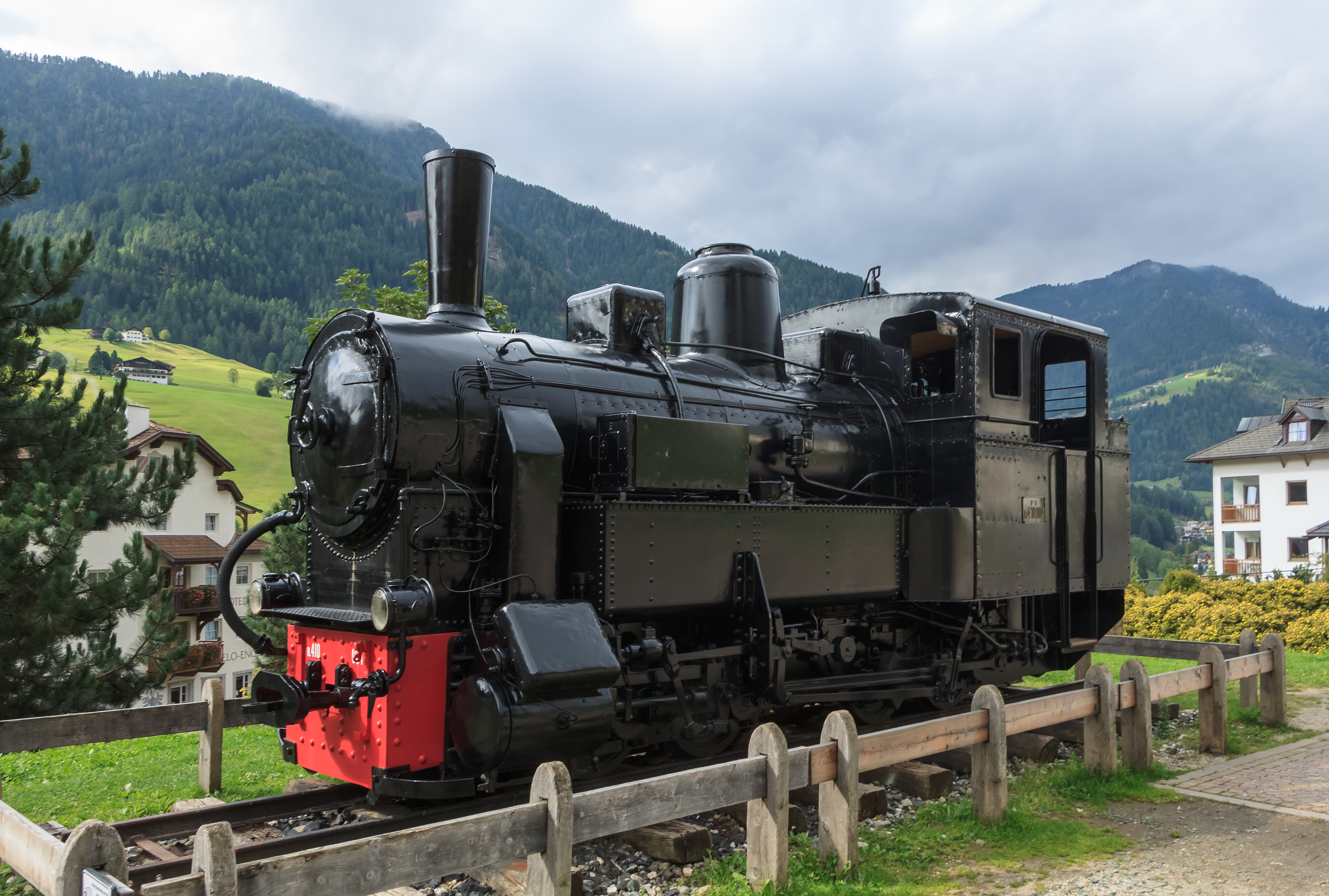 Locomotive FS R.410.004 of the Val Gardena Railway (restored and with new livery, front and left side) on the area of the formerly railway station of Urtijëi, South Tyrol, Italy.